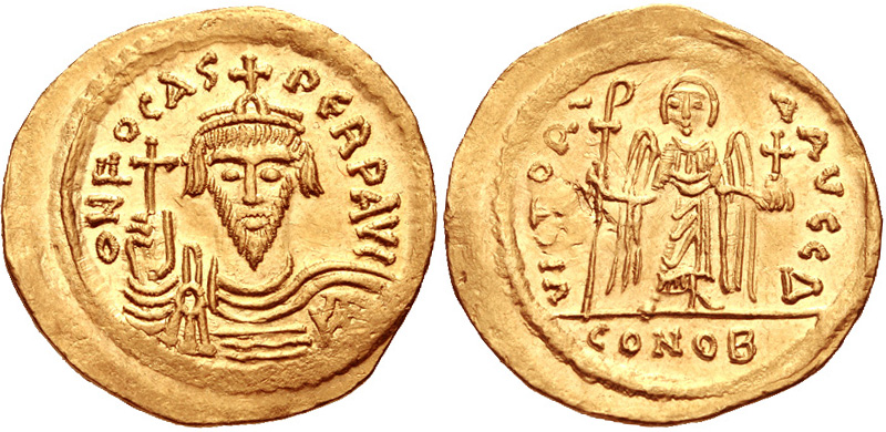 Phocas. 602-610. AV Solidus (22mm, 4.50 g, 7h). Constantinople mint, 4th officina. Struck 604-607. ON FOCAS PЄRP AVI, crowned and cuirassed facing bust, holding globus cruciger / VICTORI A AVςЧ, Angel standing facing, holding globus cruciger and long staff terminating in staurogram; Δ//CONOB.